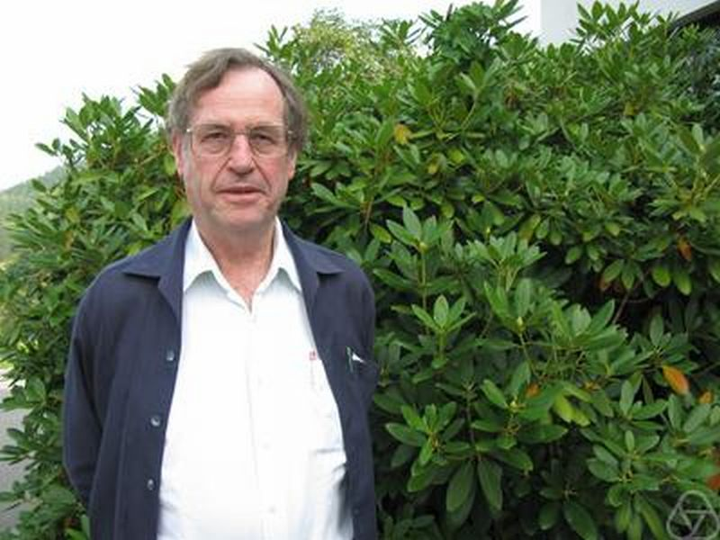 Bernard Teissier, Oberwolfach 2009